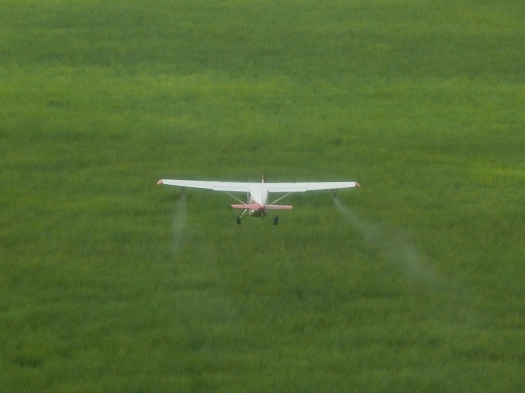 Cessna of the International Red Locust Control Organization for Central and Southern Africa spraying red locust hoppers with the entomopathogenic fungus Metarhizium acridum in the Iku Katavi National Park of Tanzania in 2009